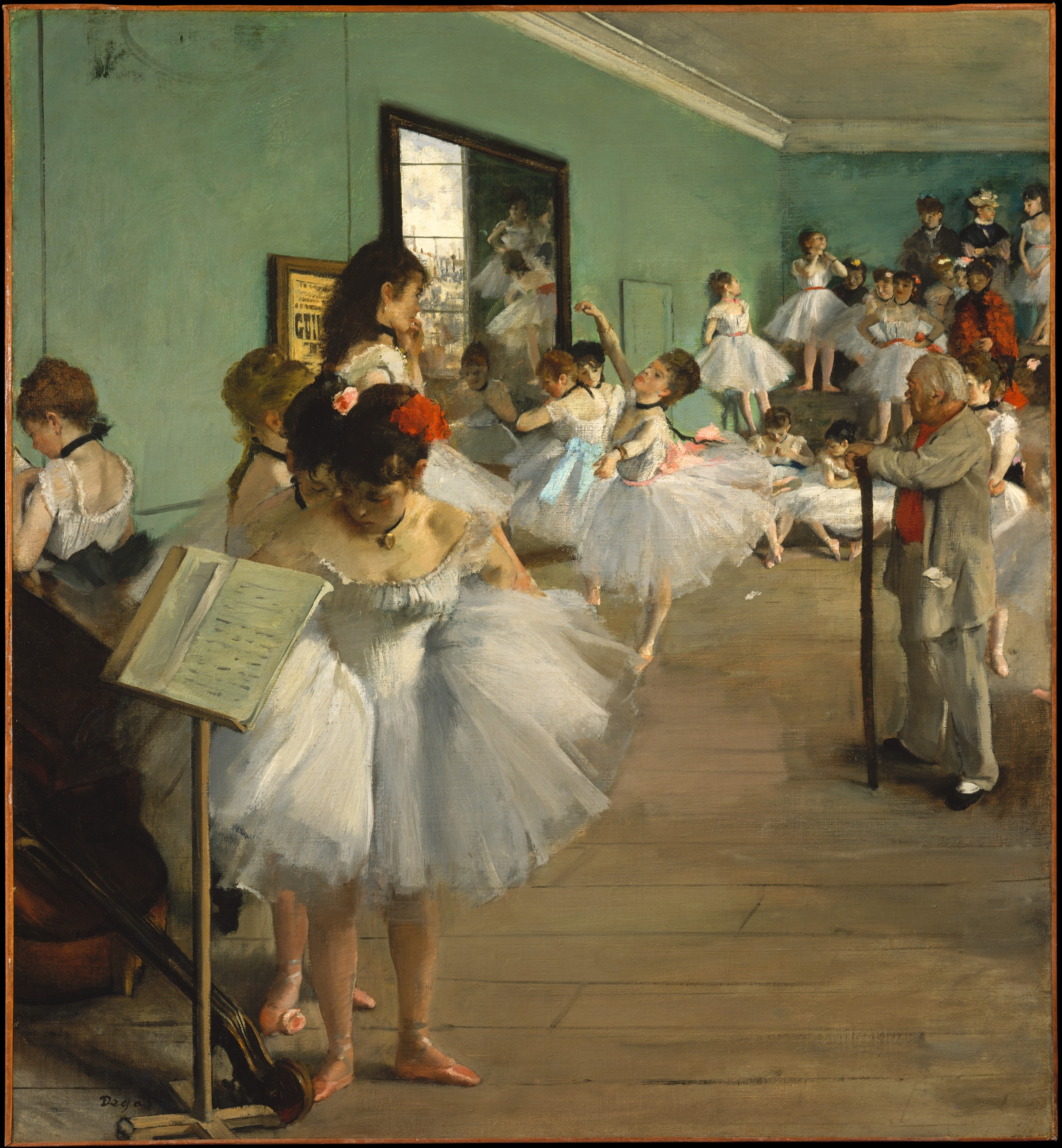 The imaginary scene is set in a rehearsal room in the old Paris Opéra—a poster for Rossini's "Guillaume Tell" is on the wall beside the mirror—even though the building had just burned to the ground.